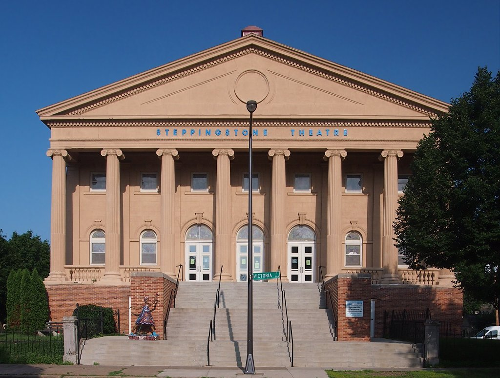 SteppingStone Theatre, 55 Victoria St N, St Paul, Minnesota, USA. Viewed from the east.